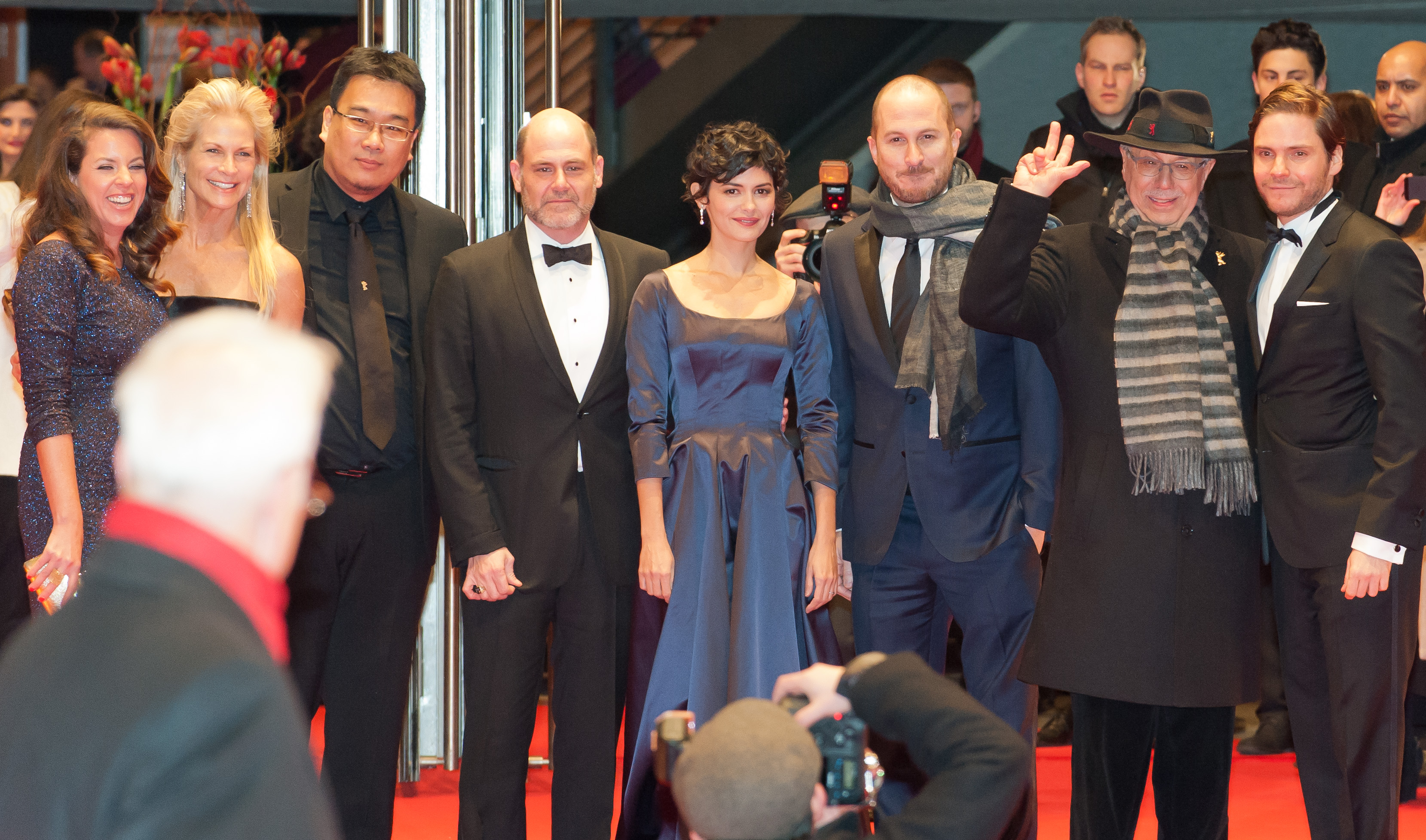 International jury (left to right): Claudia Llosa (Peru), Martha De Laurentiis (USA), Bong Joon-ho (South Korea), Matthew Weiner (USA), Audrey Tautou (France), Darren Aronosky (USA), Dieter Kosslick (festival director), Daniel Brühl (Germany) Opening of the 65th Berlin International Film Festival at the Berlinale Palast